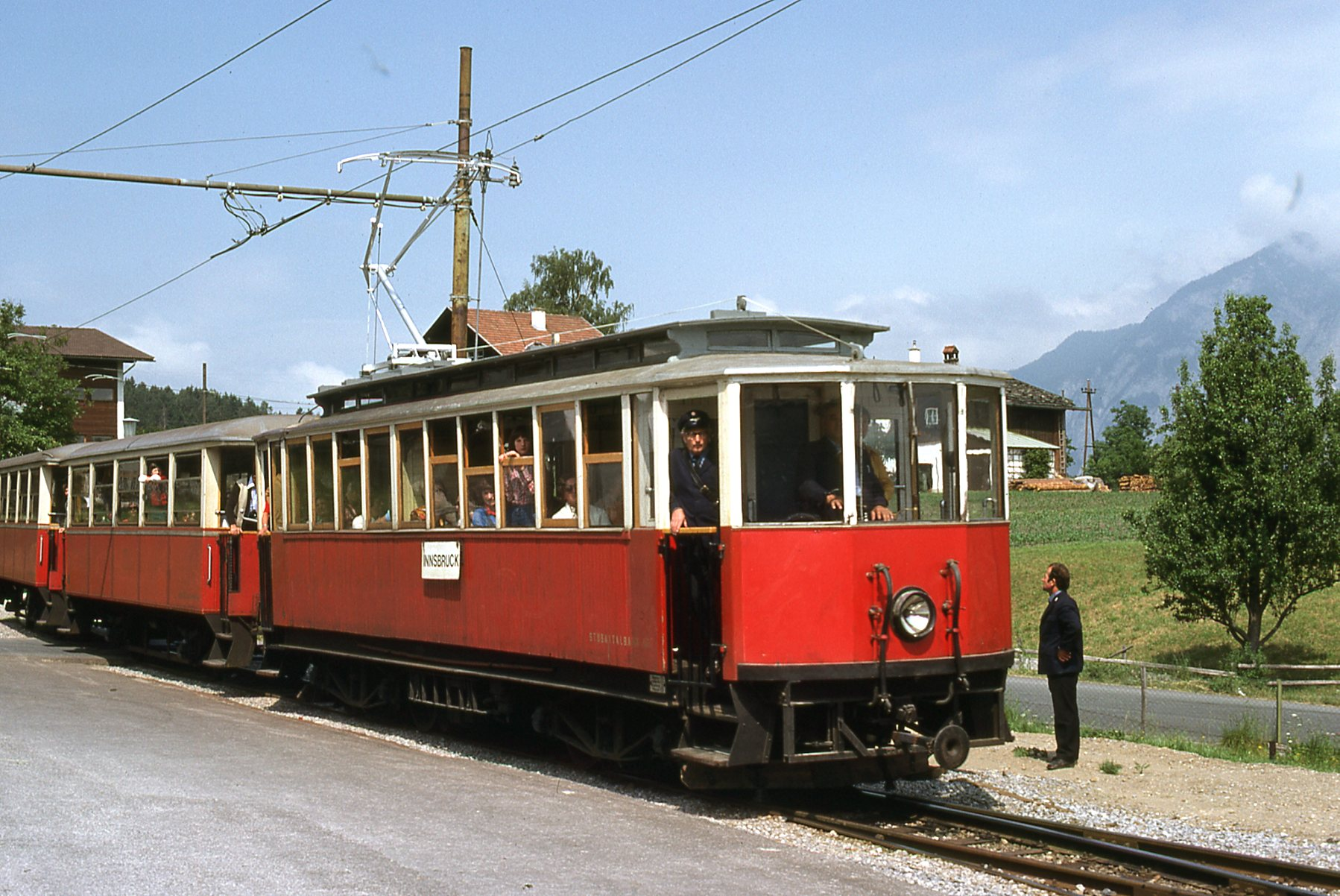 Stubaitalbahn train during the AC current era.